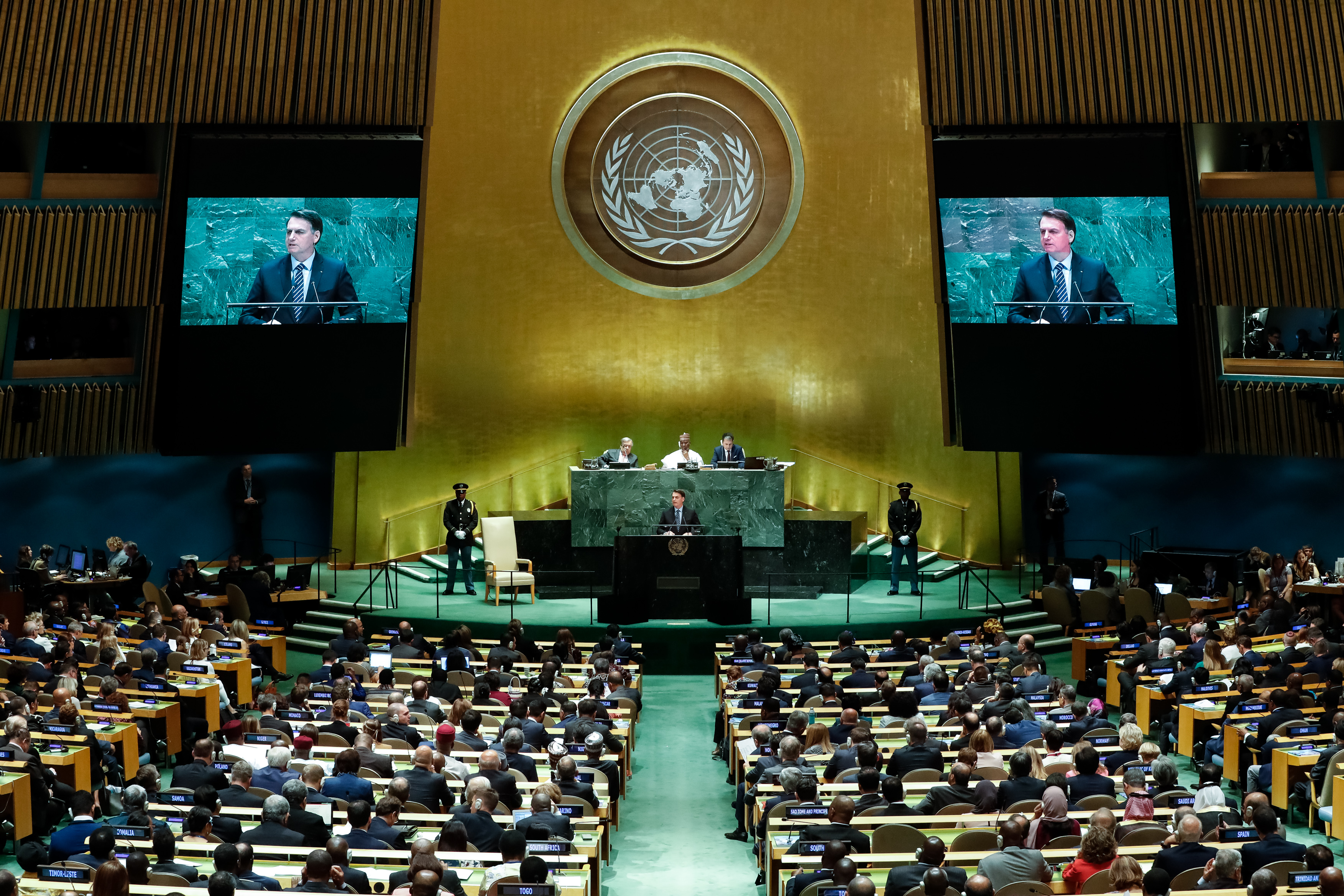 (Nova Iorque - EUA, 24/09/2019) Presidente da República, Jair Bolsonaro discursa durante a abertura do Debate Geral da 74ª Sessão da Assembleia Geral das Nações Unidas (AGNU). Foto: Alan Santos/PR